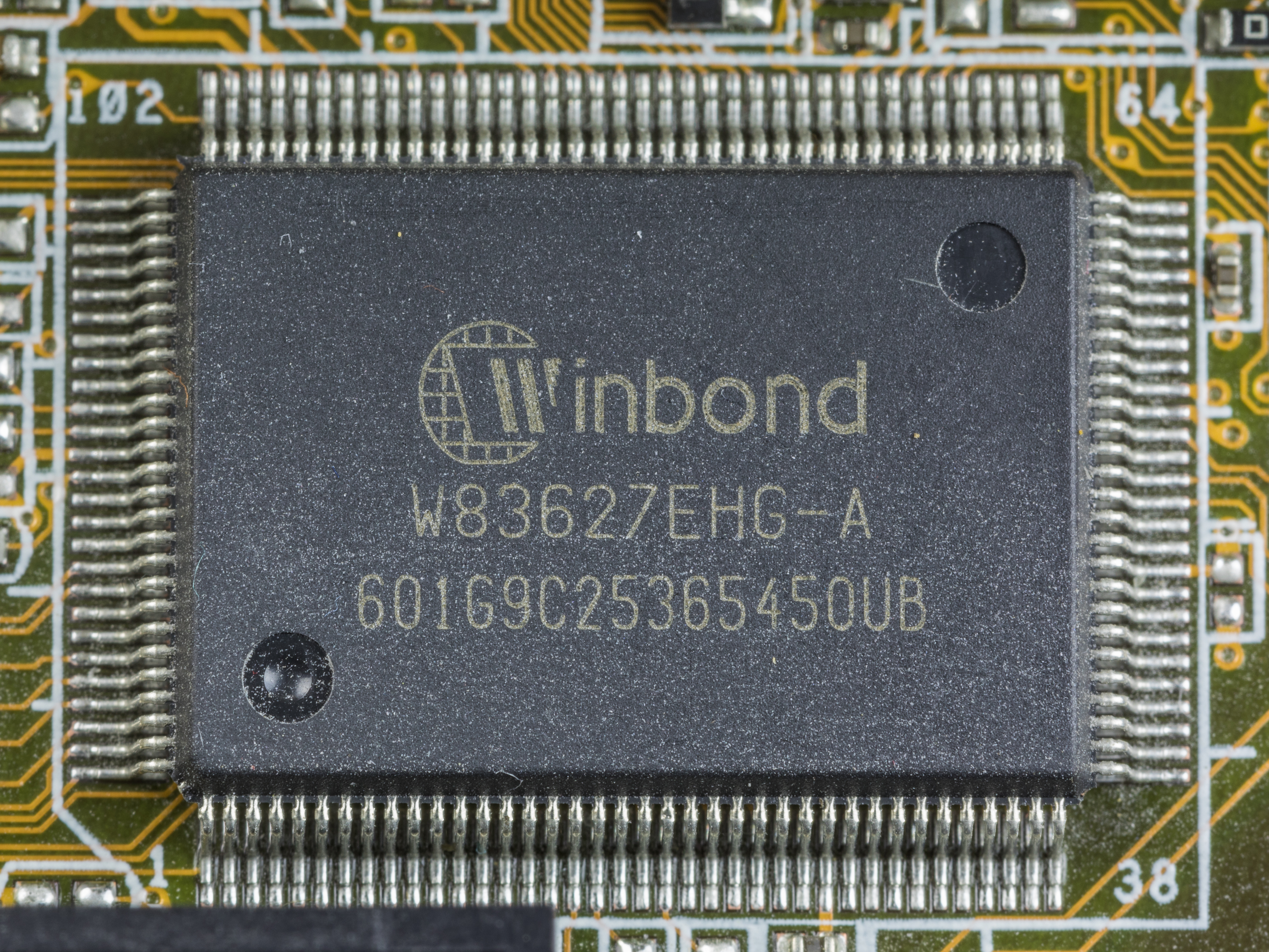 Asus P5PL2 - Winbond W83627EHG-A - Low Pin Count (LPC) I/O. Package: 128-pin PQFP